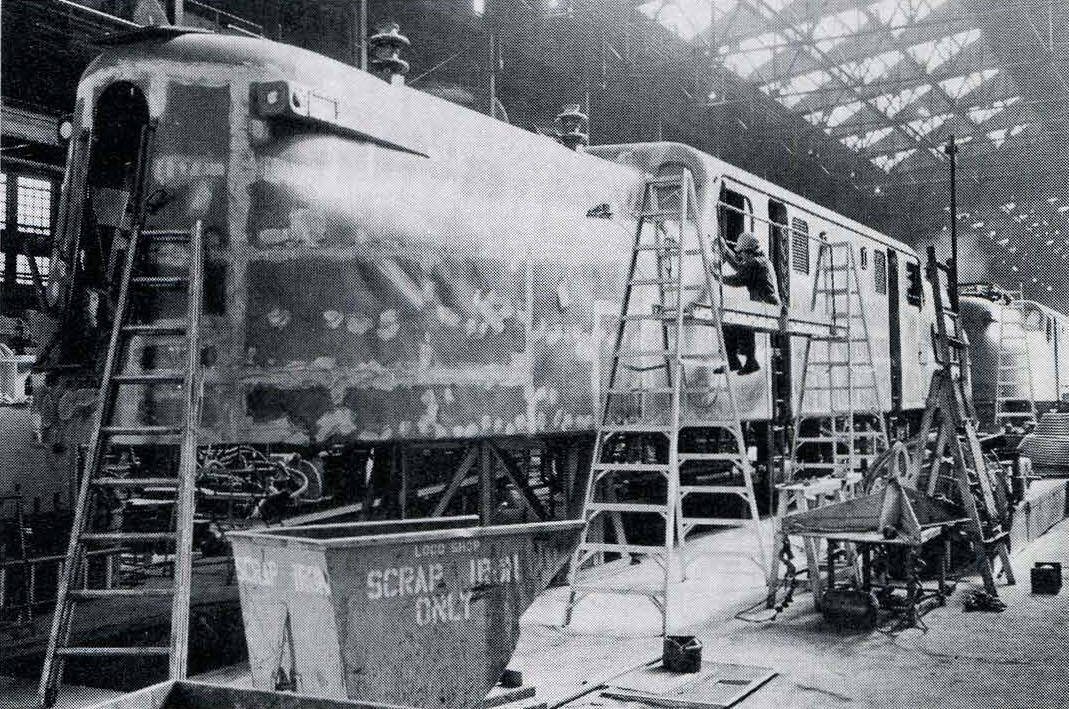 GG1 locomotive #4935 undergoing restoration at Wilmington Shops